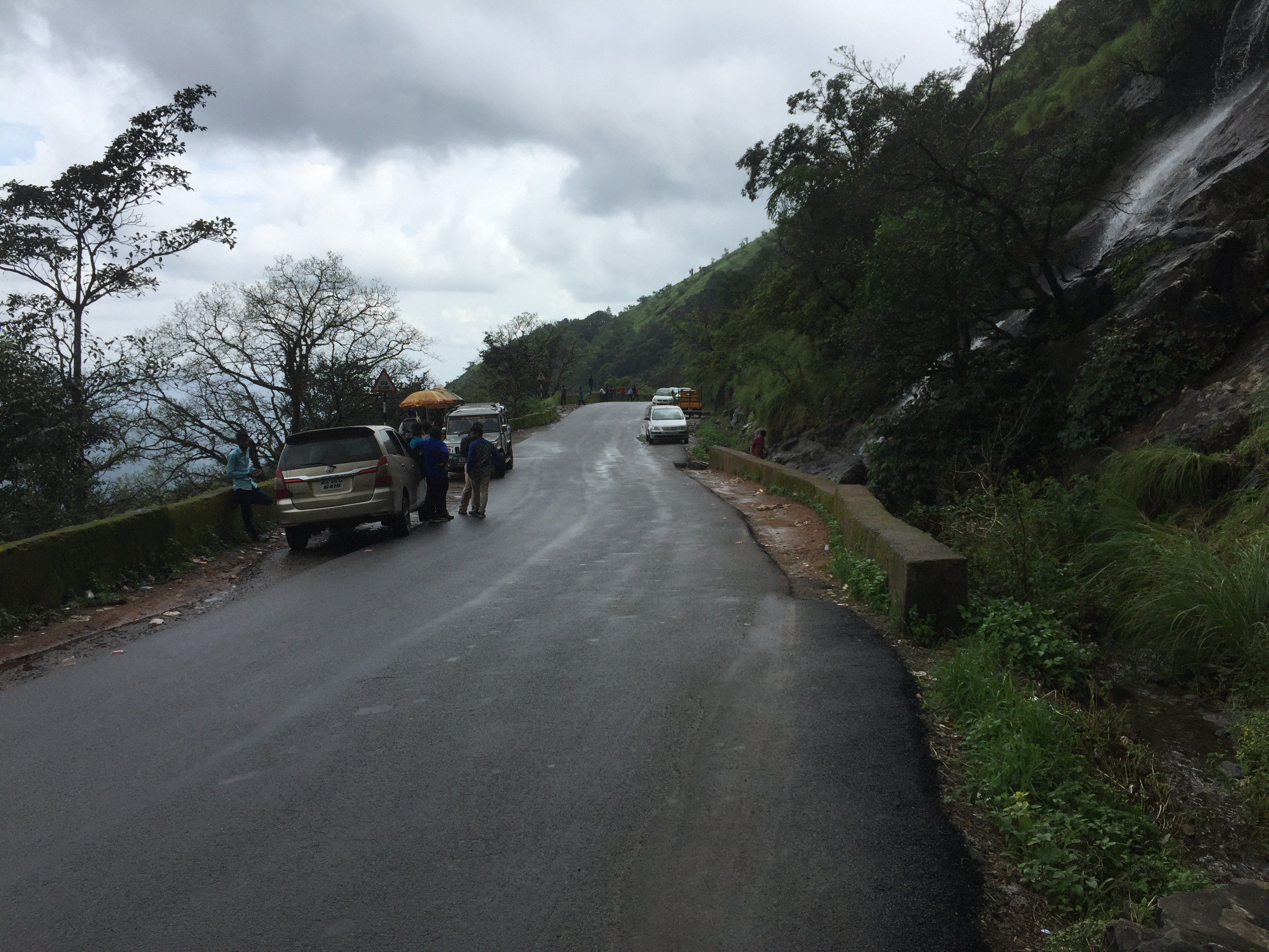 Road side view of Charmadi, Western ghats.